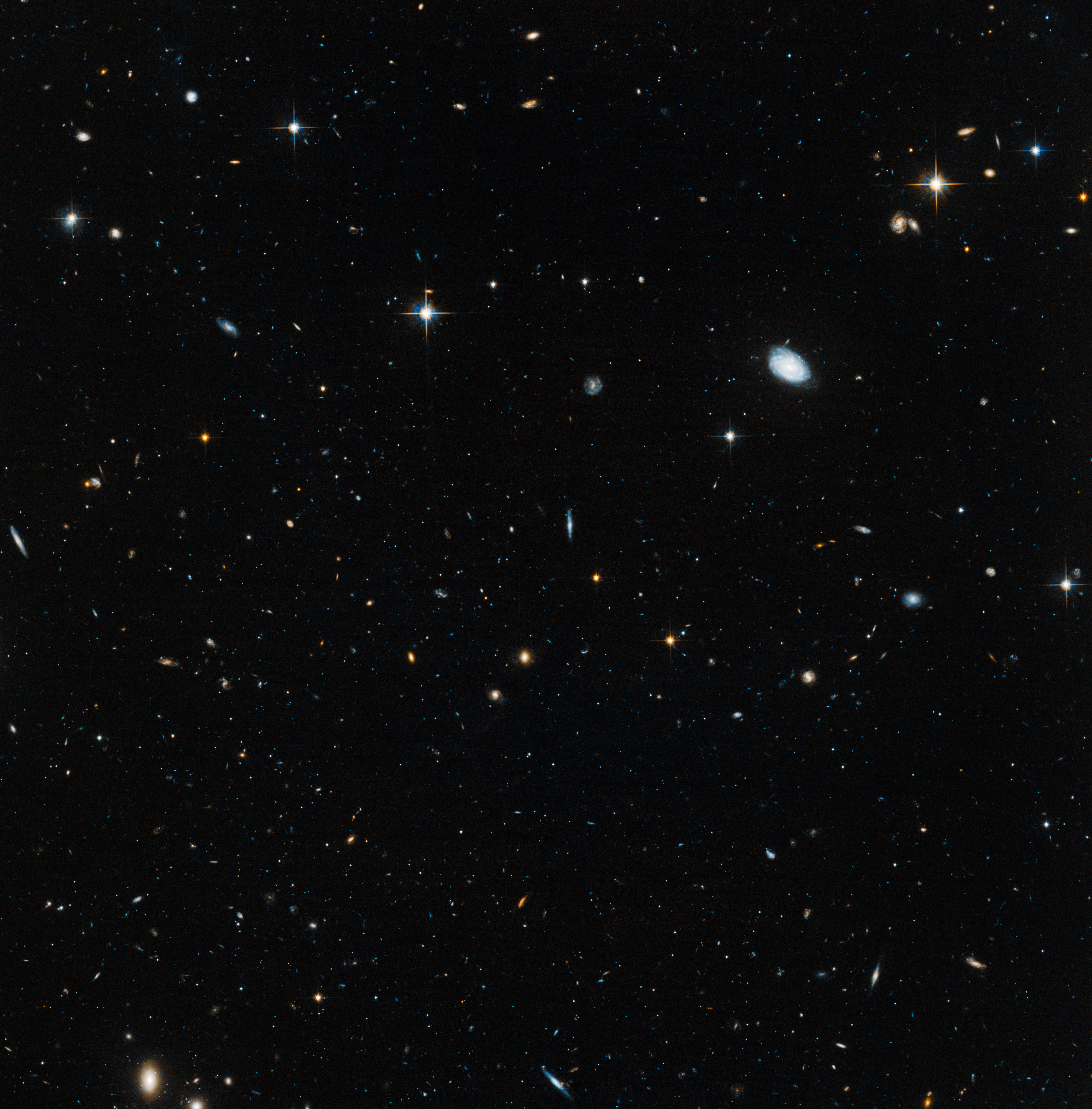 Astronomers used the NASA/ESA Hubble Space Telescope to unmask the dim, star-starved dwarf galaxy Leo IV. This Hubble image demonstrates why astronomers had a tough time spotting this small-fry galaxy: it is practically invisible. The image shows how the handful of stars from the sparse galaxy are virtually indistinguishable from the background. Residing 500 000 light-years from Earth, Leo IV is one of more than a dozen ultra-faint dwarf galaxies found lurking around our Milky Way galaxy. These galaxies are dominated by dark matter, an invisible substance that makes up the bulk of the Universe’s mass.